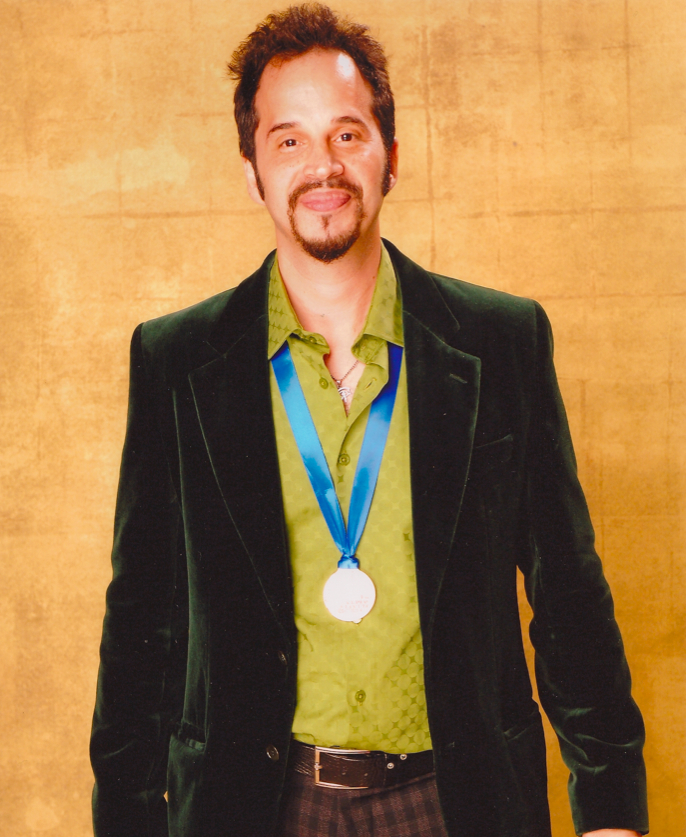 2005 Latin GRAMMY Nomination for Song of the Year "Todo el Año" Obie Bermudez